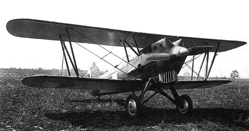 Czechoslovakian fighter aircraft Avia B-34. 1930s.